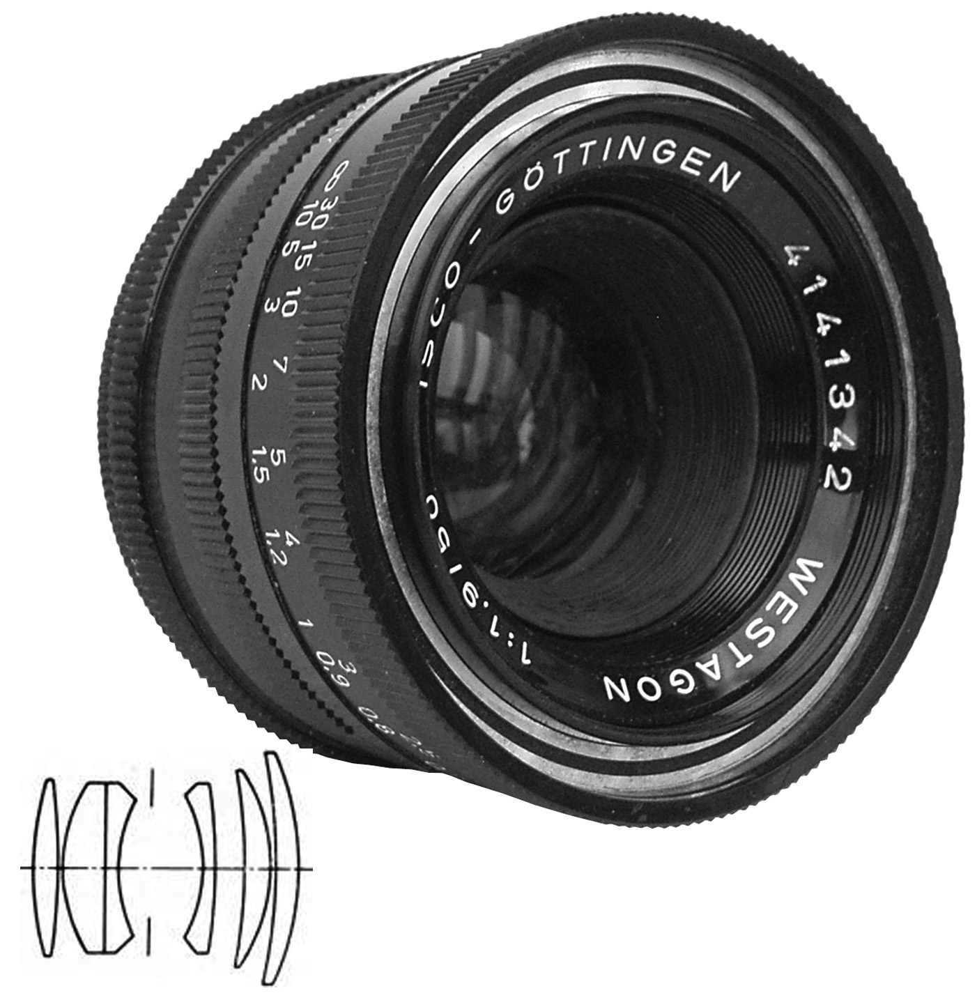 ISCO Westagon 1:1,9/50